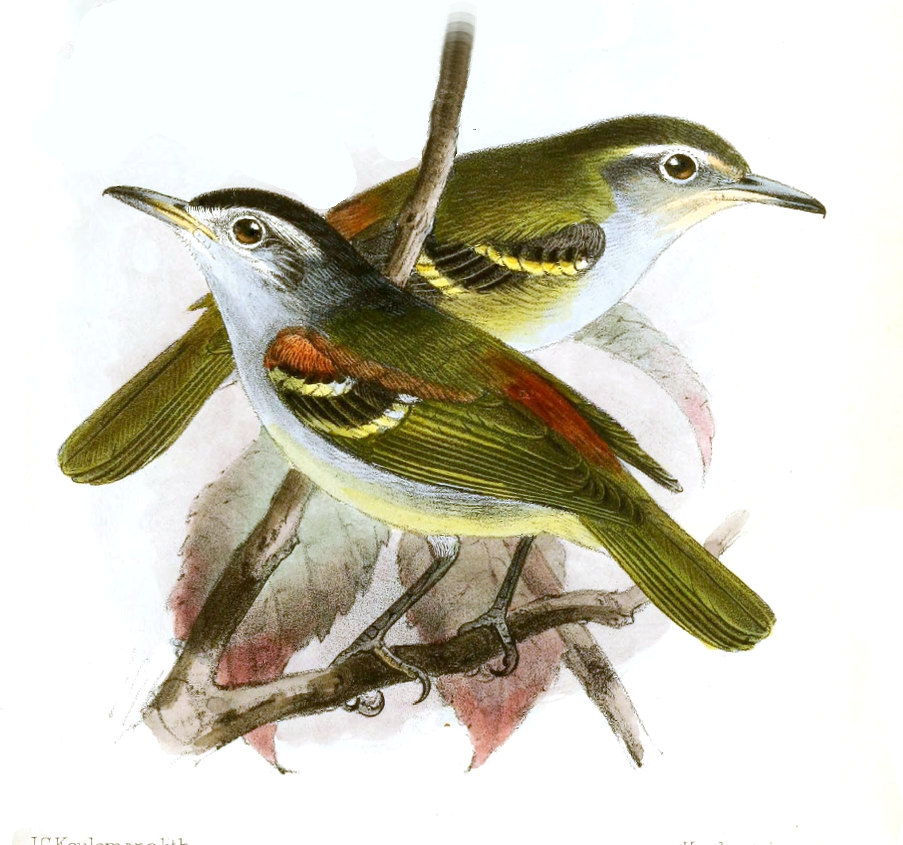 « Terenura humeralis » = Terenura humeralis (Chestnut-shouldered antwren) - male and female